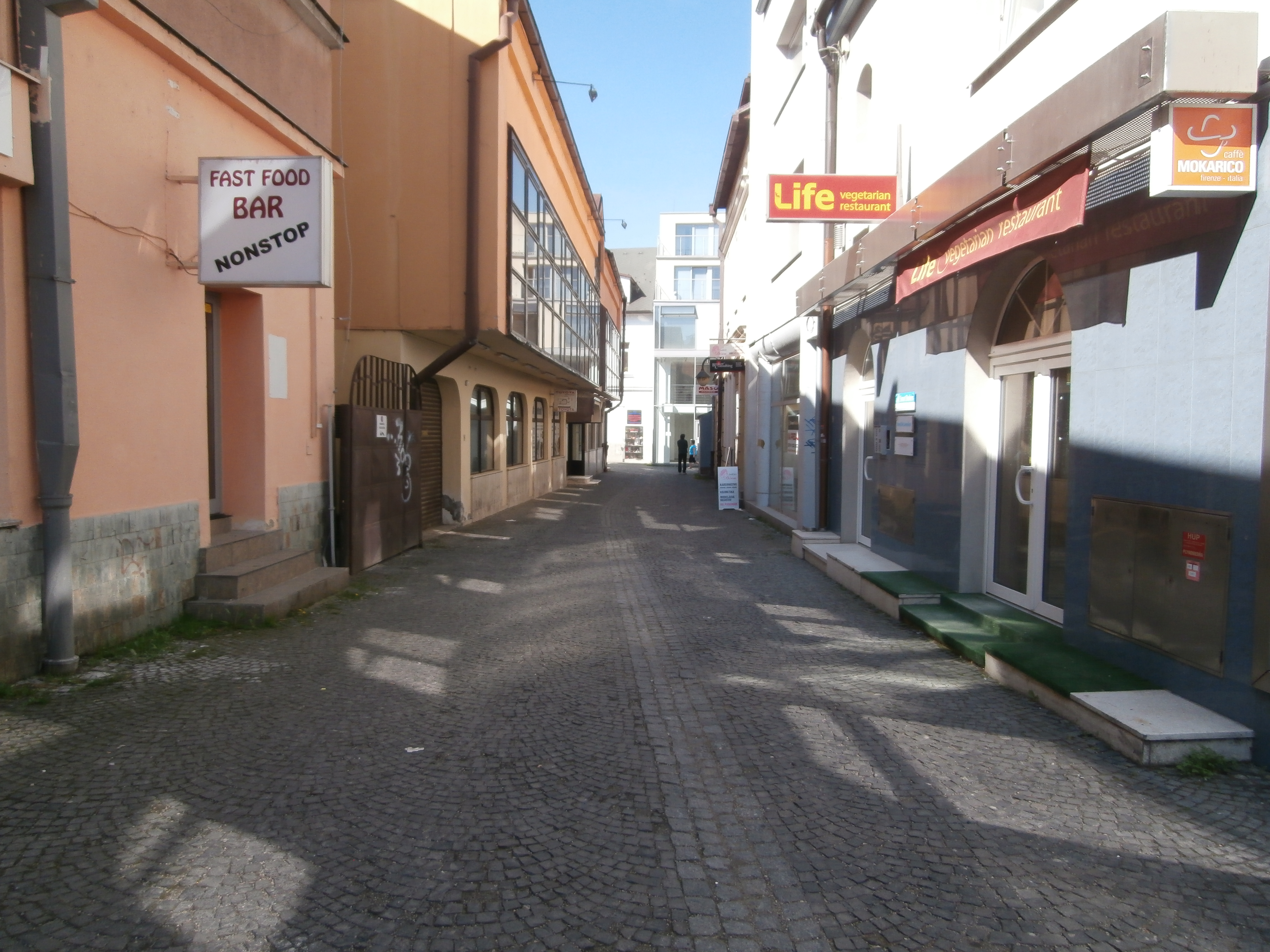 This is a street in Žilina.